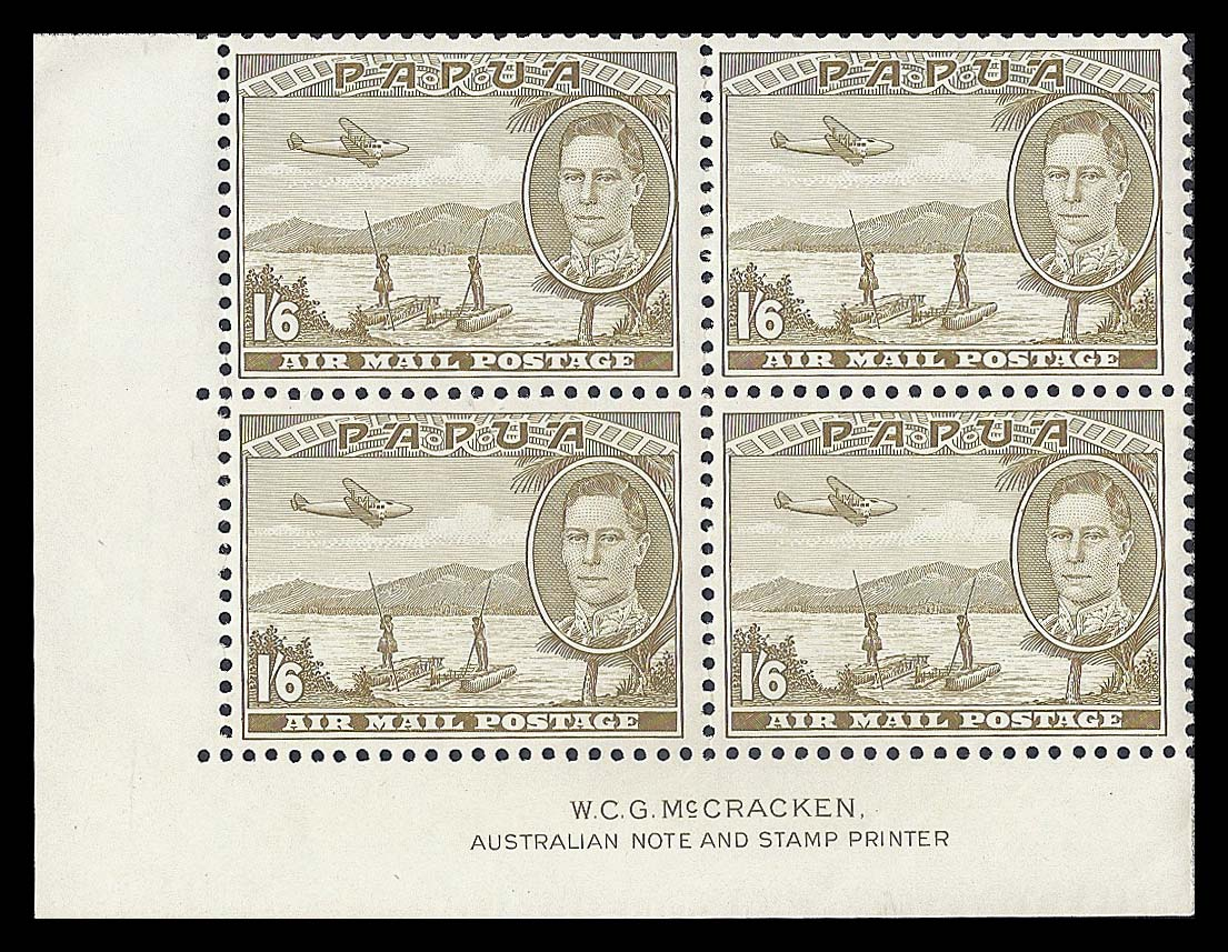 Papua 1941 1s6d airmail stamp in imprint block.